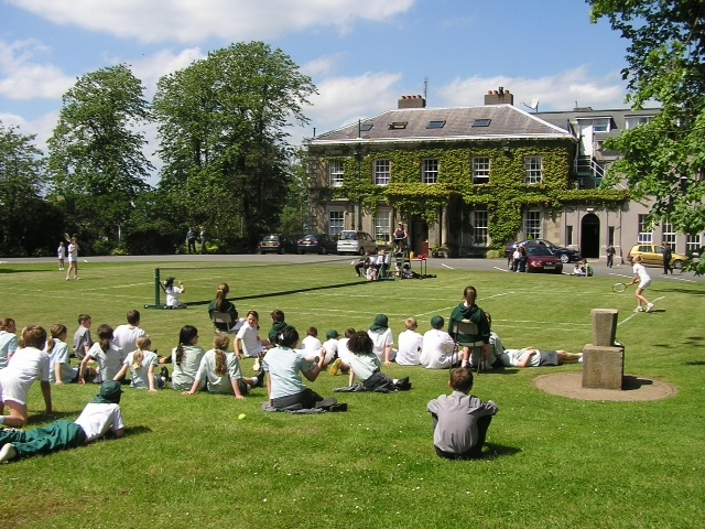 Greens v Whites: Inter-House Tennis on the front lawn